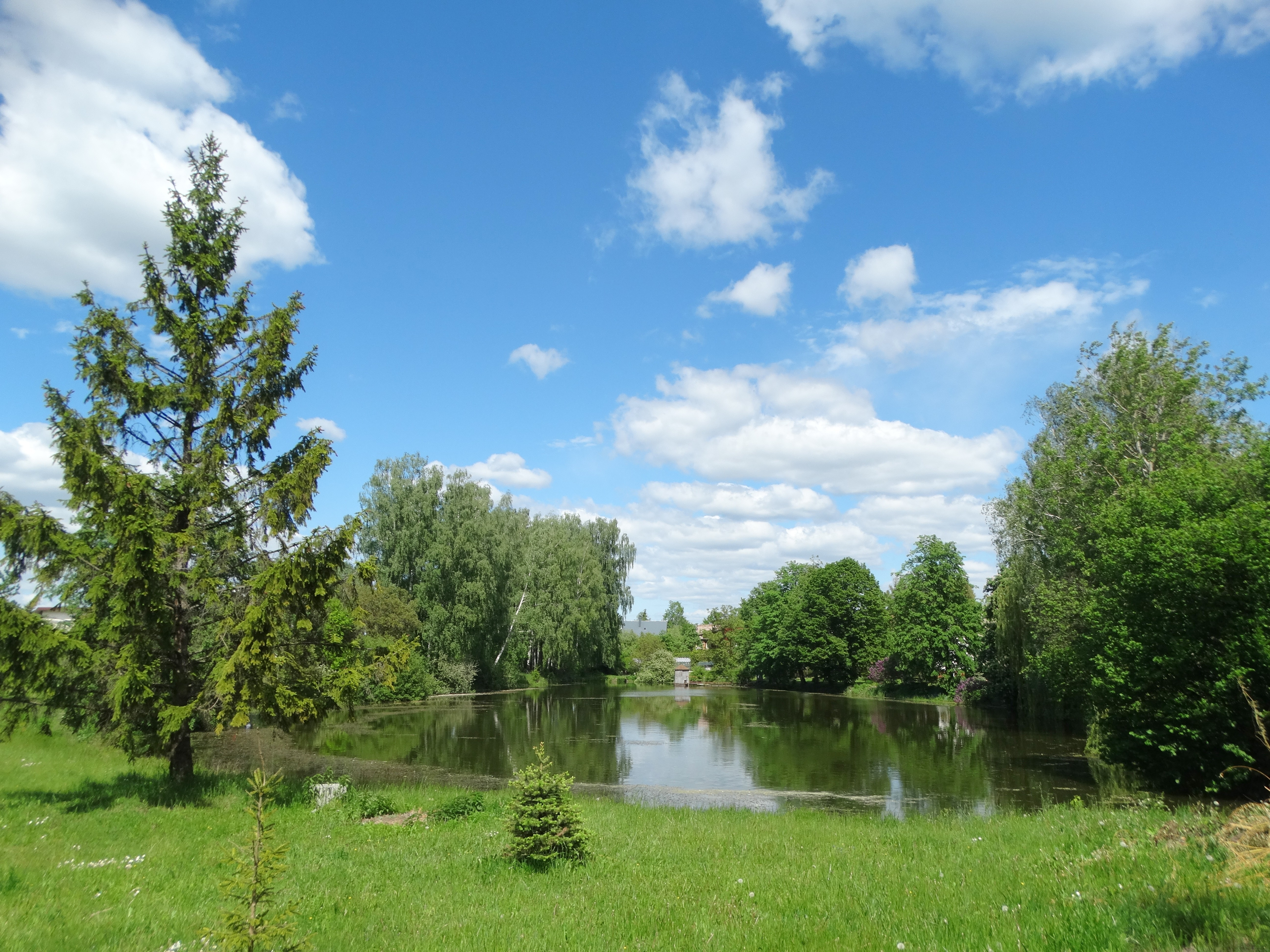 Laumėnai, pond, Kaunas district, Lithuania